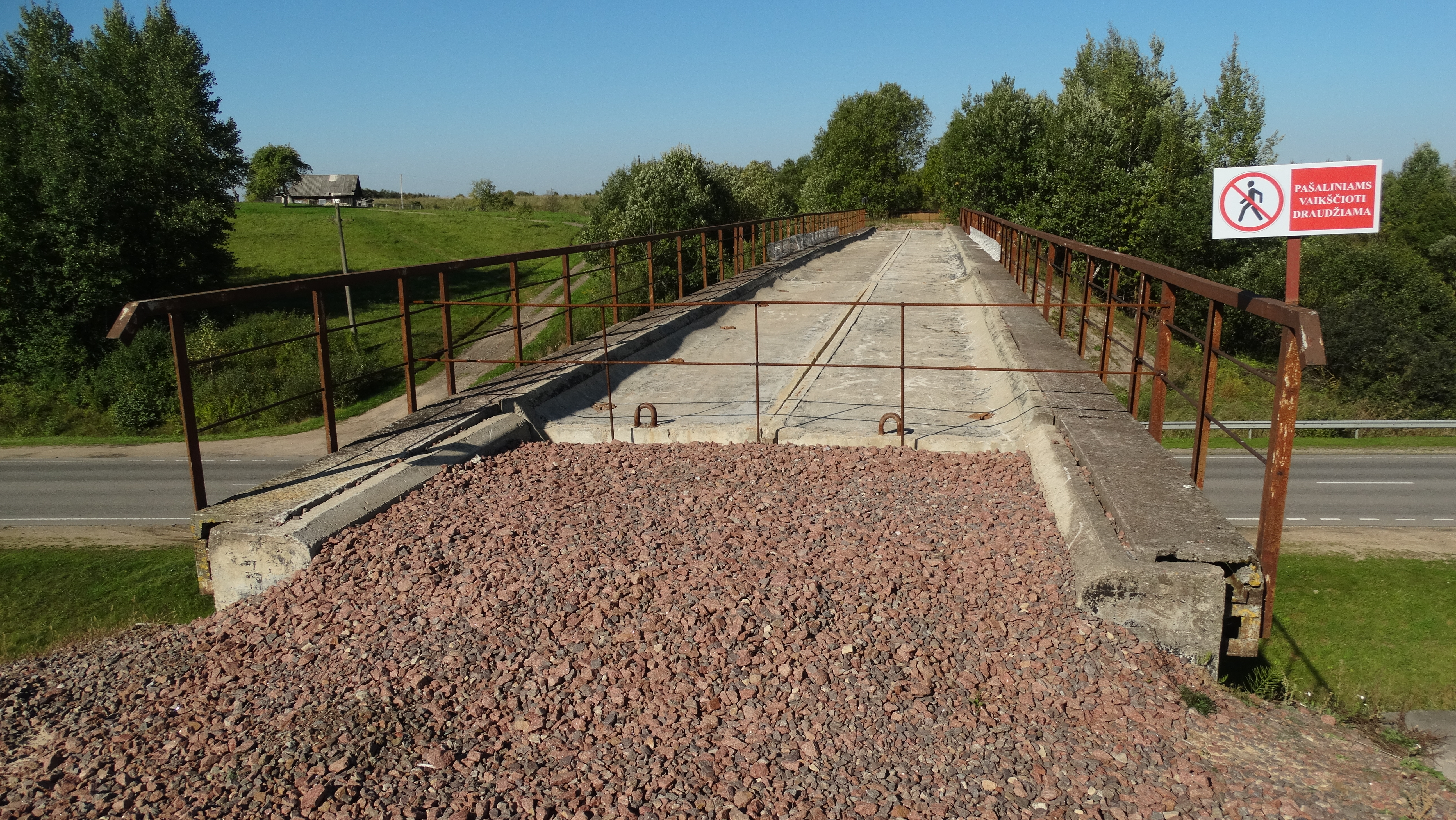 Former railway, Narkūnai, Utena District, Lithuania